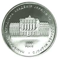 Coin of Ukraine